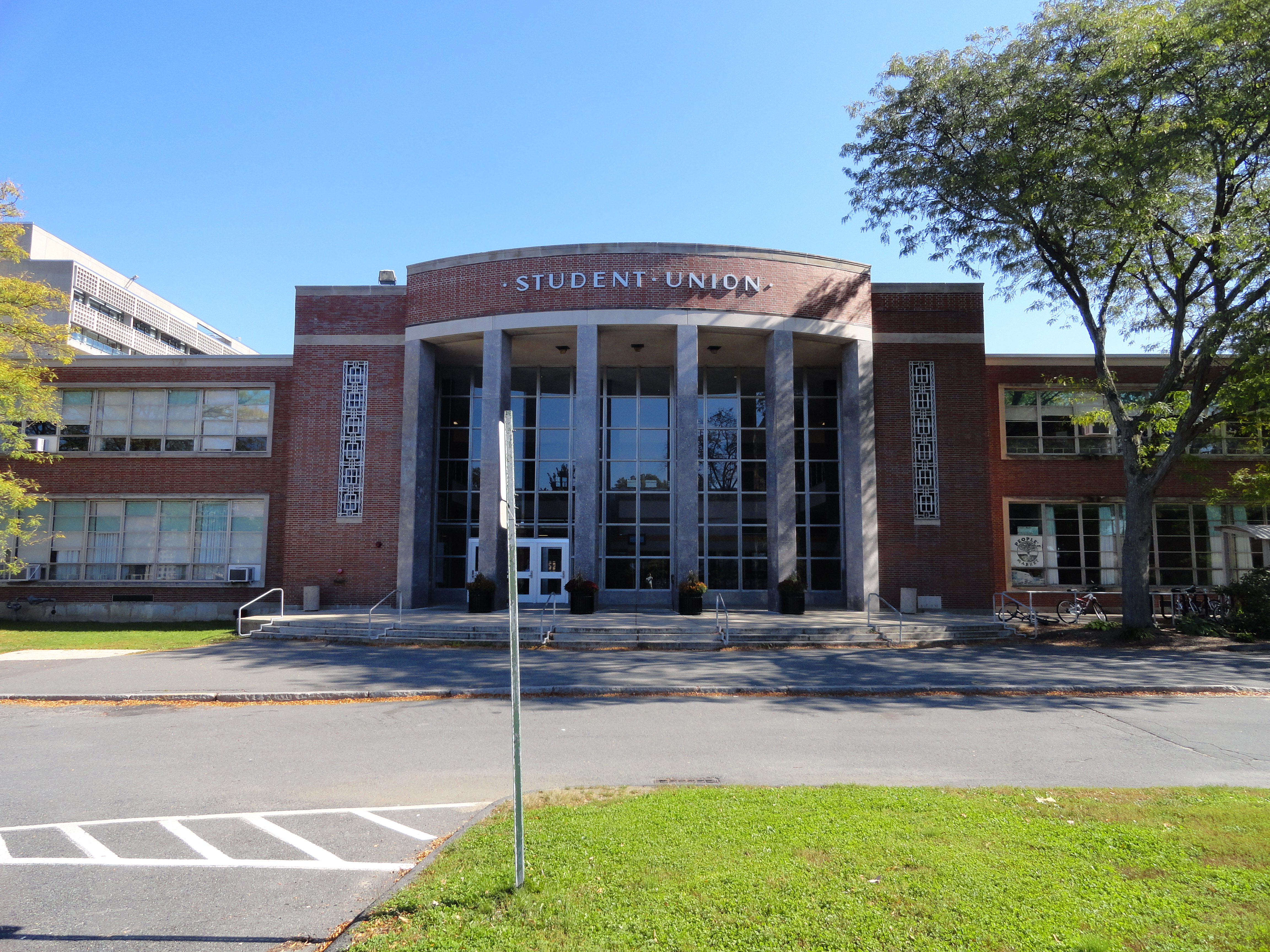 The Student Union at the University of Massachusetts Amherst.